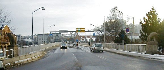 Bybrua i Hønefoss (The City Bridge of Hønefoss)